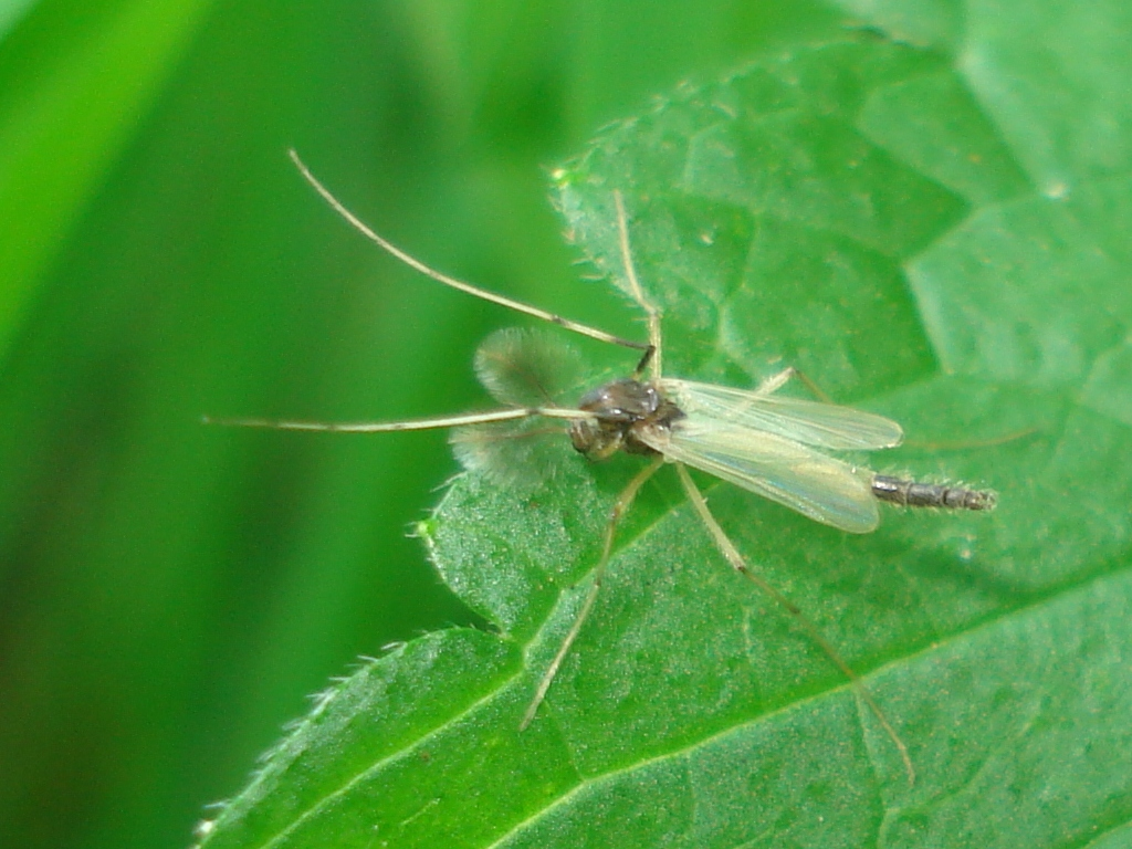 Microtendipes pedellus (Synonym: Tendipes pedellus see Schumann et al. (1999).[1])